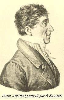 Jurine